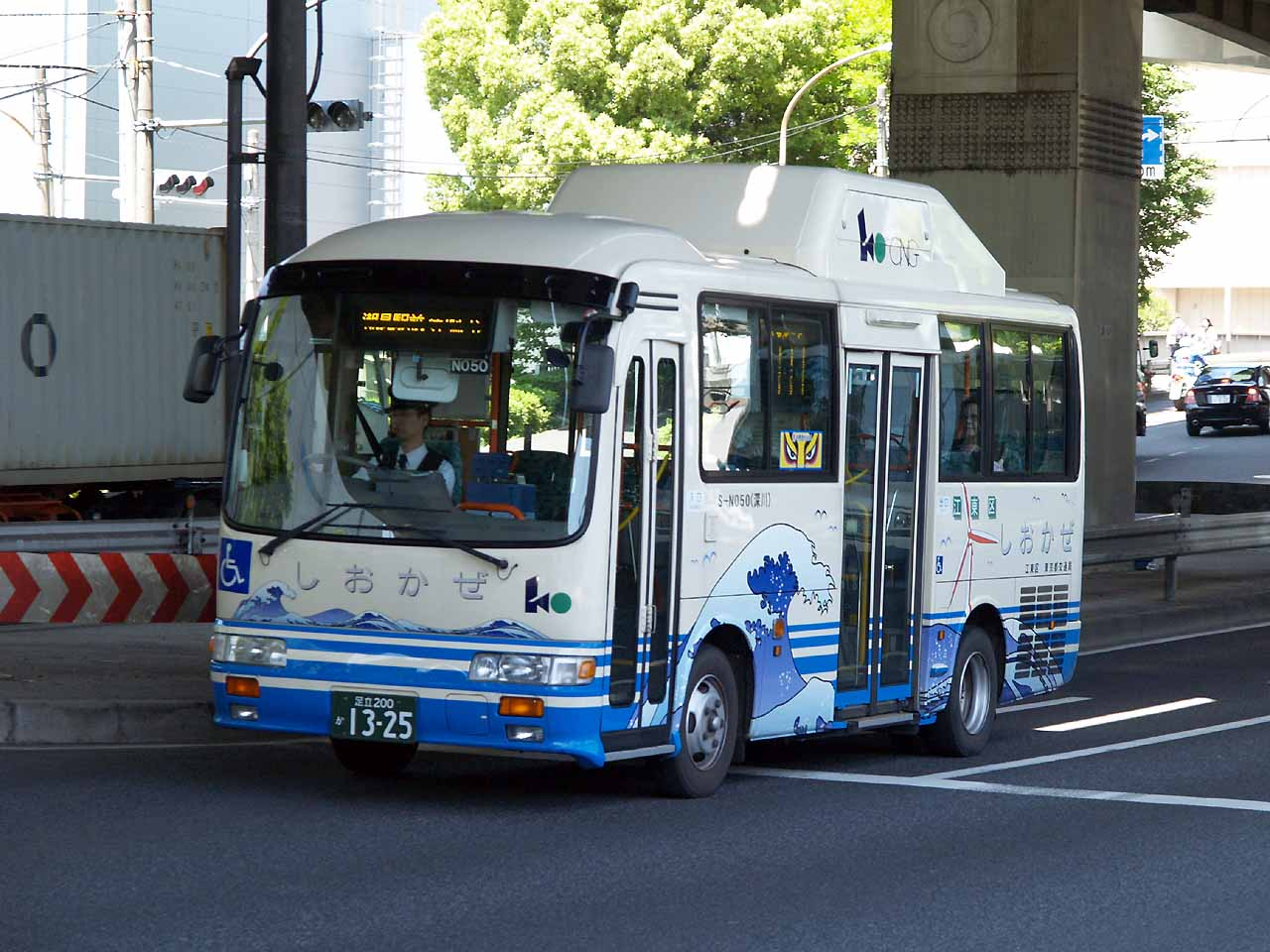 Fleet of Koto ward community route bus "Shiokaze", operated by Toei Bus Fukagawa Dept. Model: Hino Liesse PB-RX6JFAA License plate: TKA200 KA1325 Place: Shiohama, Koto ward, Tokyo Japan